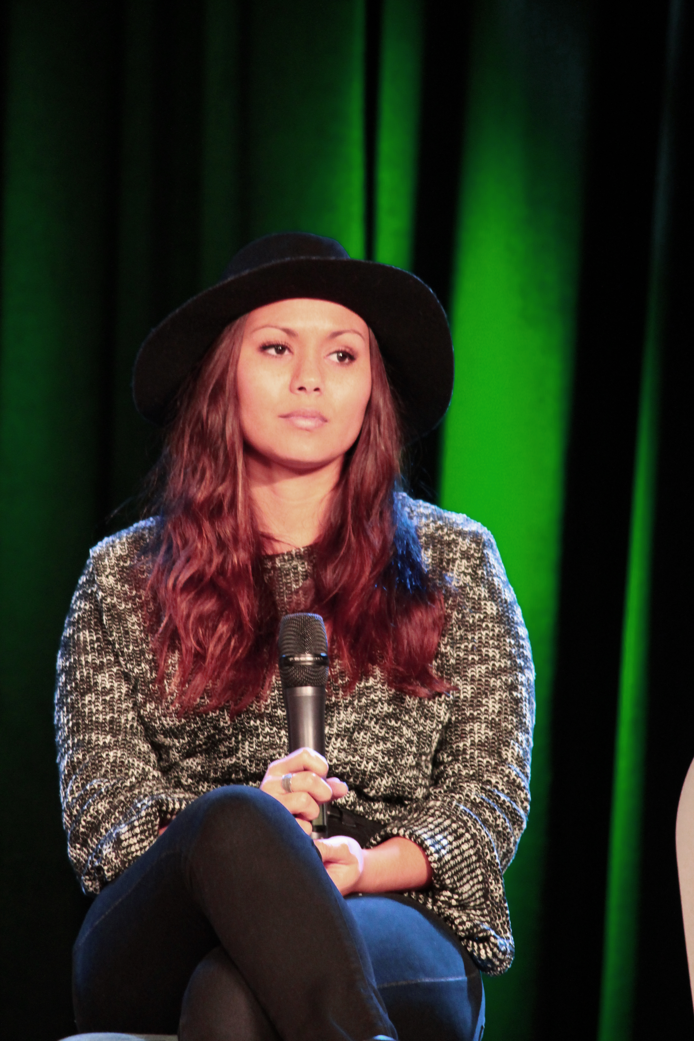 Olivia Olson at Magic City ComicCon